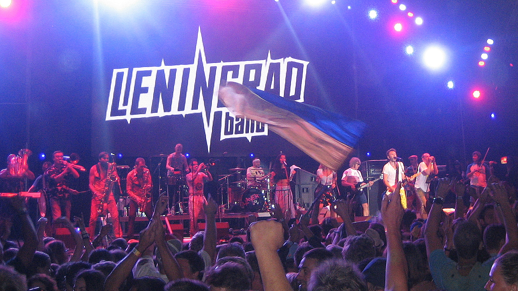 Leningrad (Russia), Sziget Festival 2016, 13 August 2016